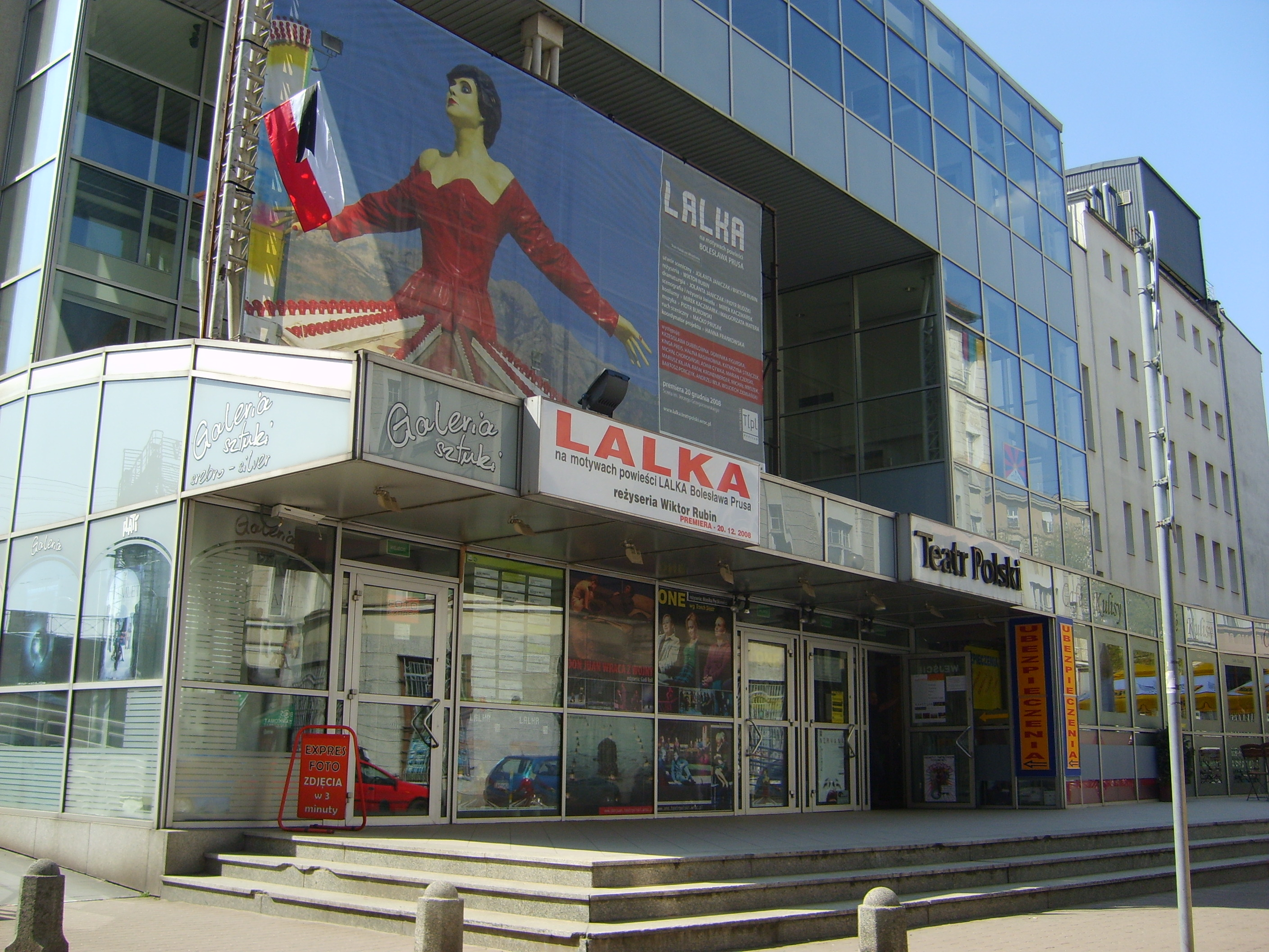 "Teatr Polski" in Wrocław